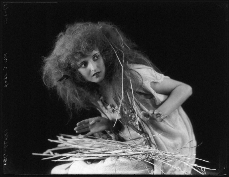 D'Oyly Carte Opera Company publicity photograph of Eileen Sharp (1900-1958) as Mad Margaret in Ruddigore (1923). The Company is now defunct.